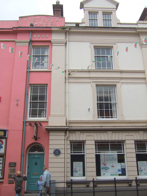 Gwen John's birthplace The artist Gwen John was born here at the family home in Victoria Place on June 1st 1876. Her brother Augustus, born two years later in Tenby, also lived here as a child. The ornamentation on the facade of the building was added in 1893 when it became a bank.